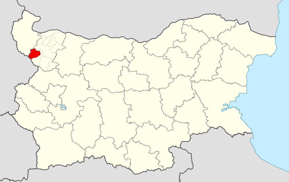 Location map of Chiprovtsi Municipality within Bulgaria and Montana Province. Equirectangular projection, N/S stretching 130 %. Geographic limits of the map: N: 44.4° N S: 41.1° N W: 22.1° E E: 28.9° E